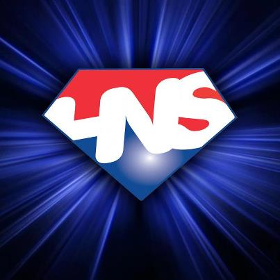 Blue logo